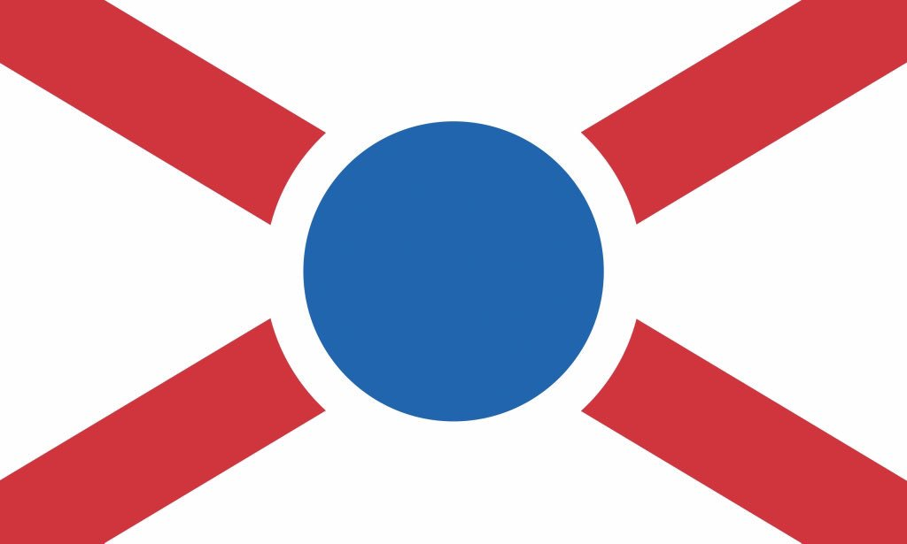 National Flag of Shanghai proposed by the Shanghai National Party.